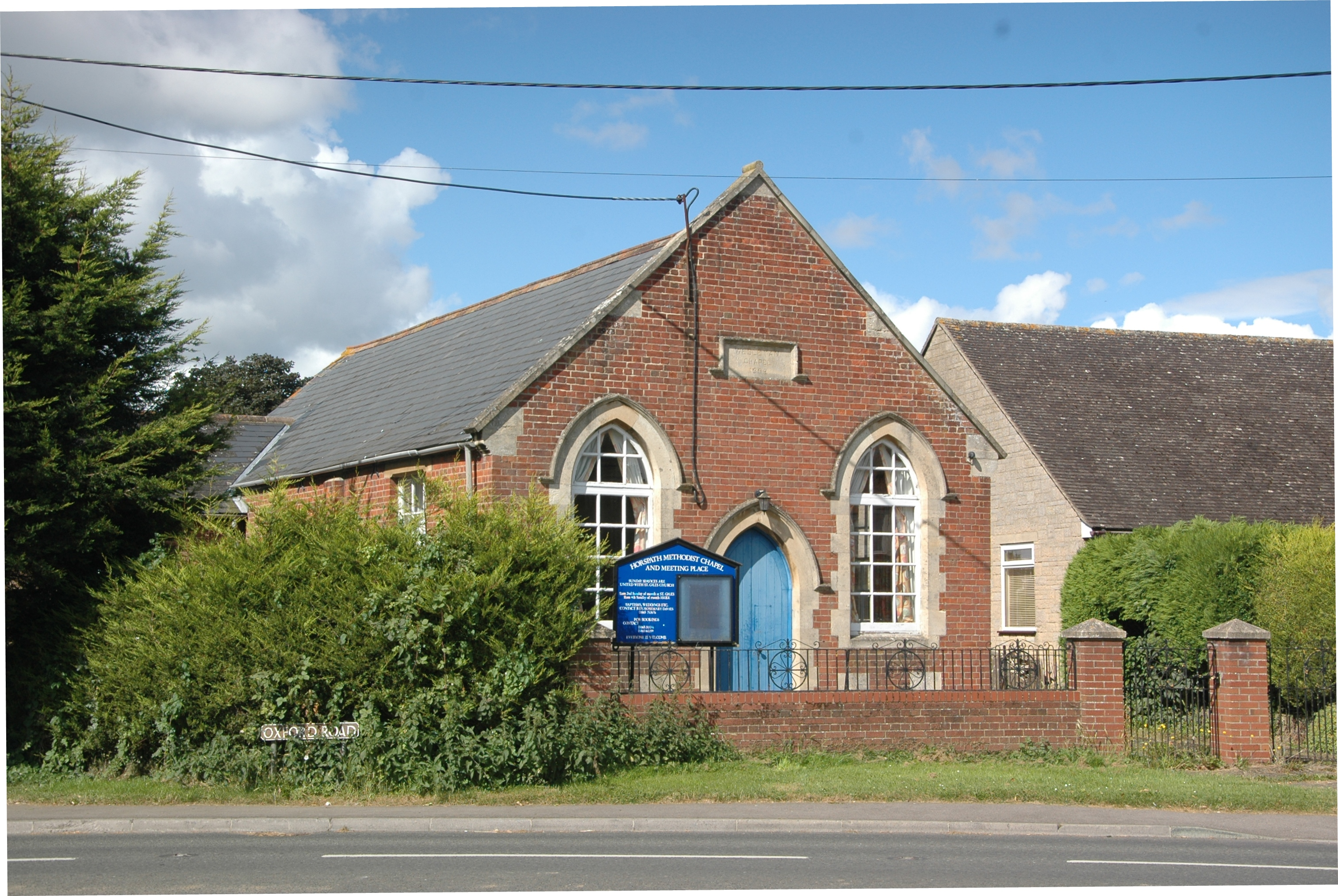 Horspath Methodist Church, Horspath, Oxfordshire